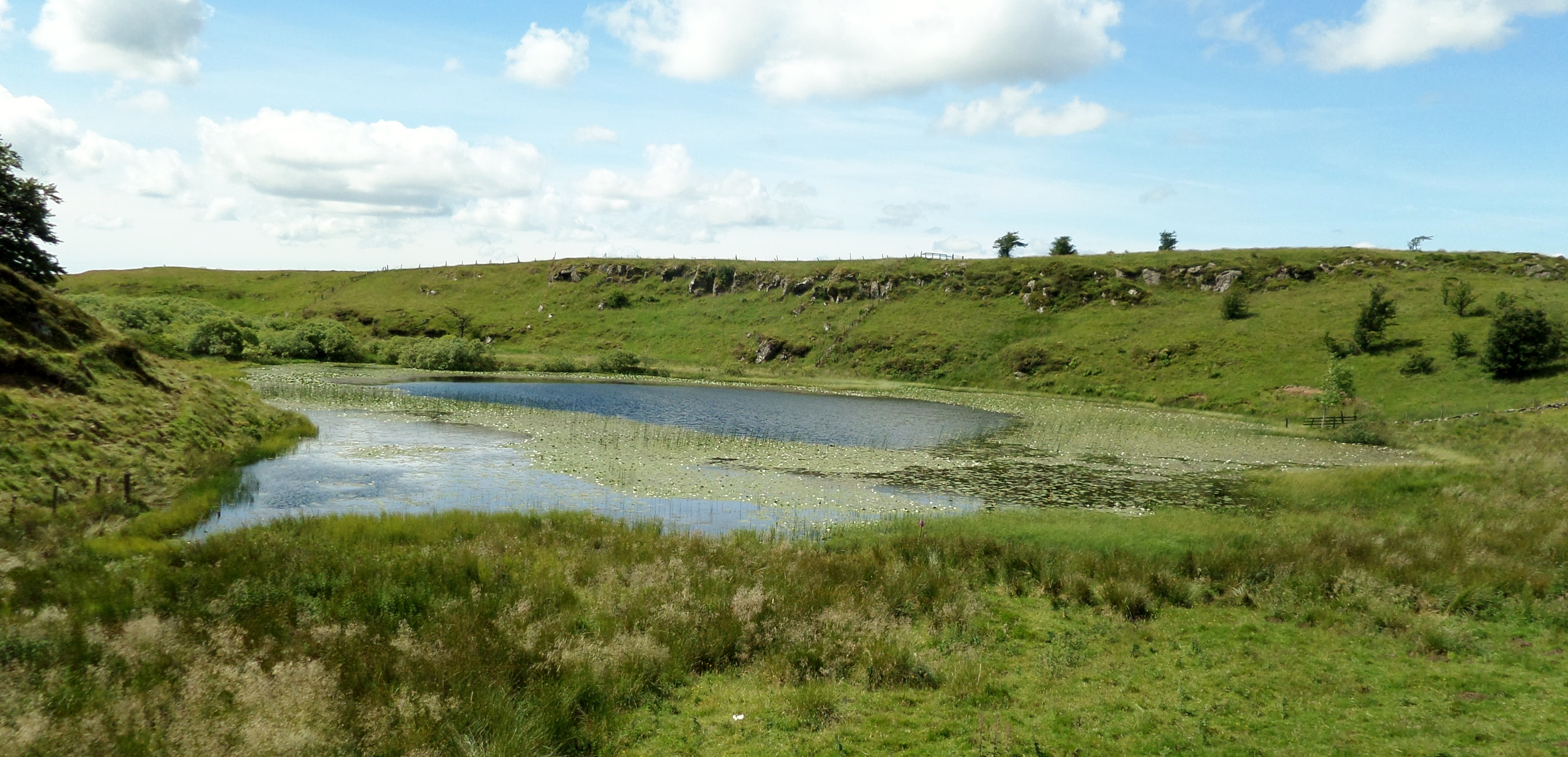 Walls Loch from the north, East Renfrewshire, Scotland